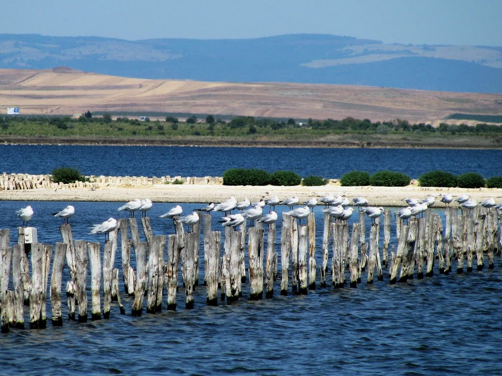 Pomorie Lake